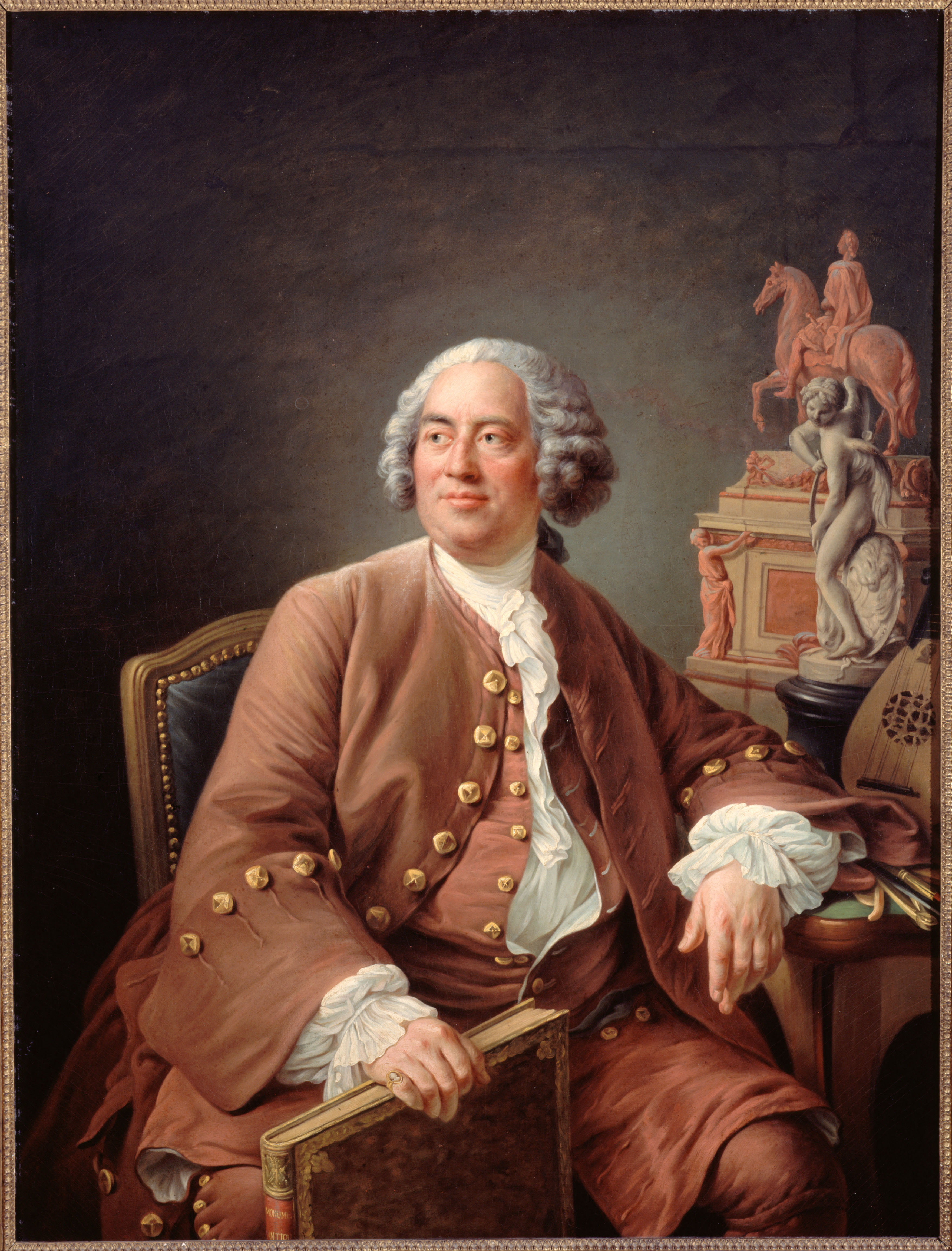 Reception piece for the Académie royale de peinture presented on November 25, 1758.